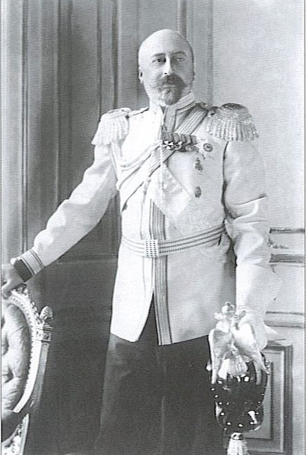 Grand Duke Nicholas Mikhailovich of Russia